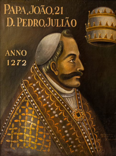 Pope John XXI, Gallery of the Archbishops of Braga